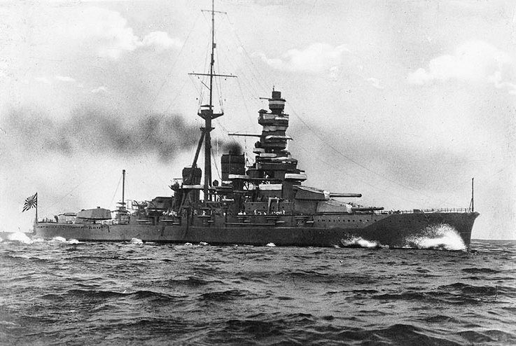 Japanese battleship Haruna underway, 1931